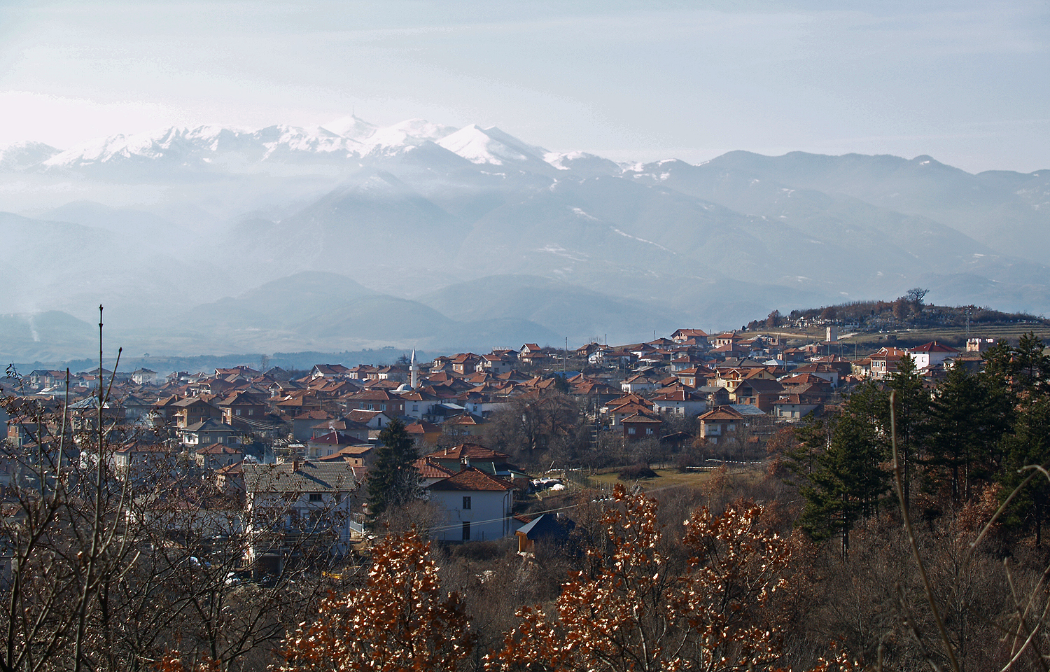 View to Ognyanovo, Bulgatria